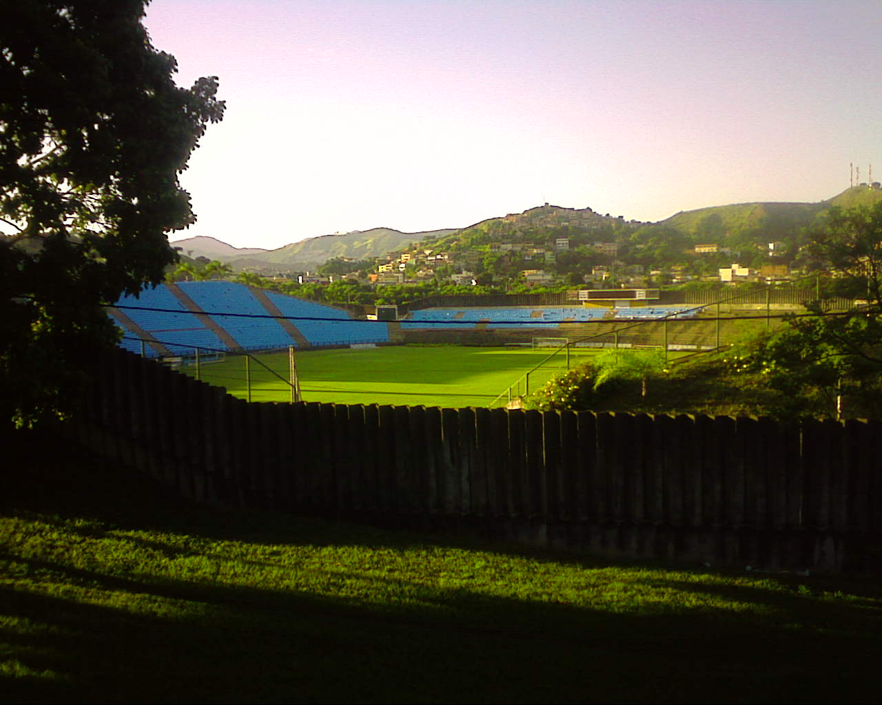 Ipatingão Stadium in the city of Ipatinga, MG. Seen by BR 381.